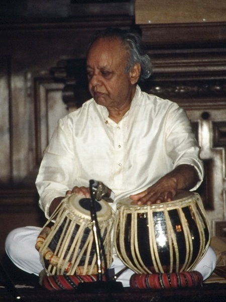 Alla Rakha was a master of the tabla, a classical Hindustani percussion instrument